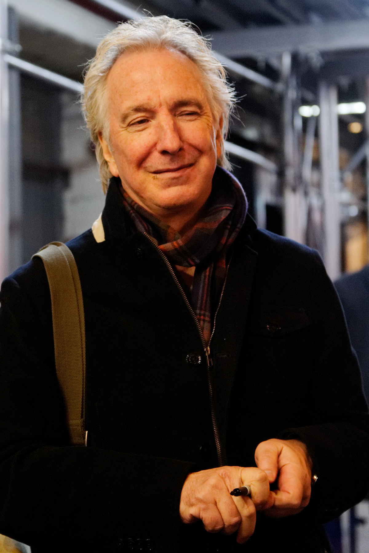 Alan Rickman after the performance of Seminar at the John Golden Theater, November 11, 2011